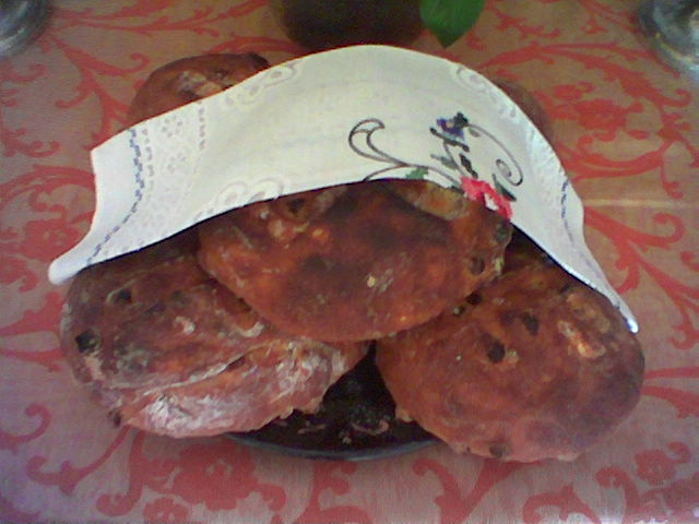 Litie Loaves used at Artoklasia